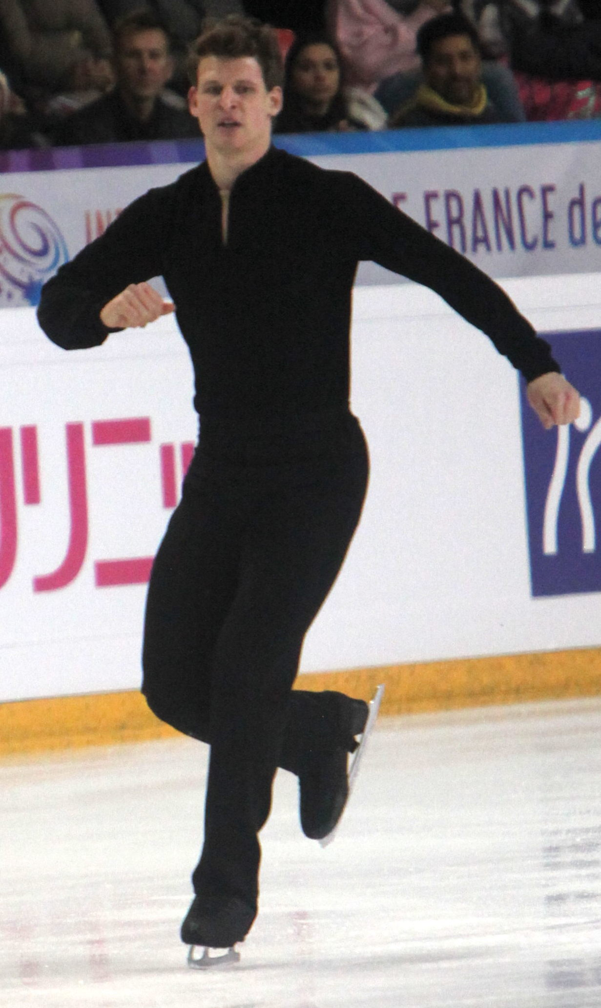 Audrey Lu and Misha Mitrofanov during the Pairs Free Skating at the Internationaux de France de Patinage 2018.